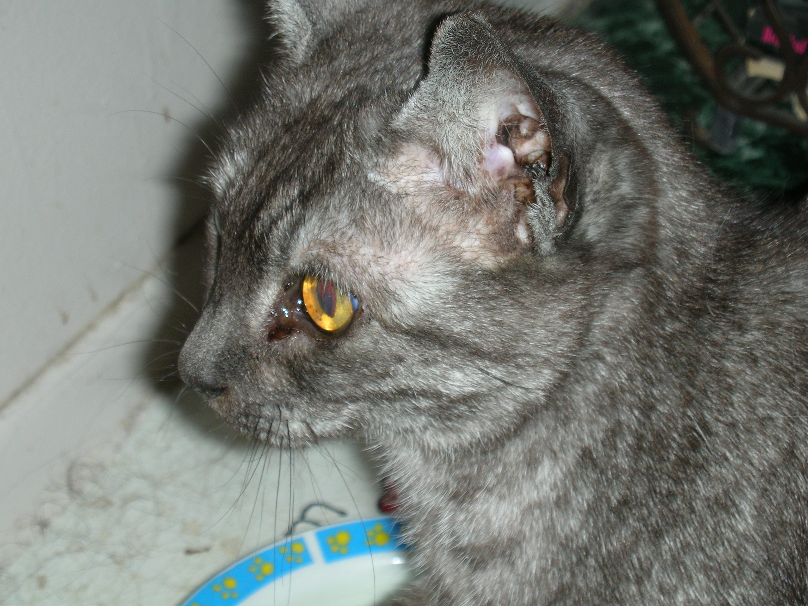 This is a photograph I took of my cat Bridel